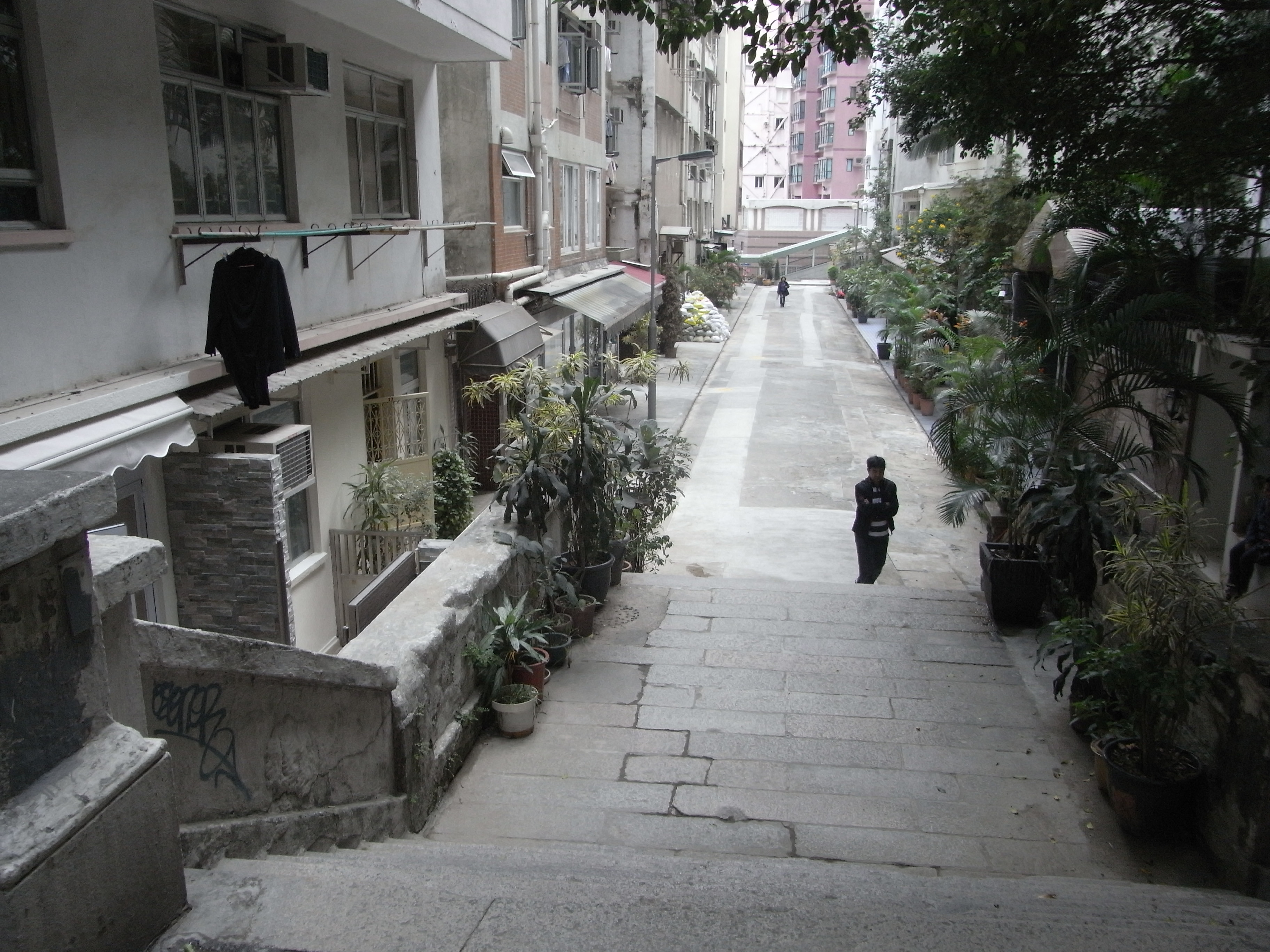 香港島半山區太子臺